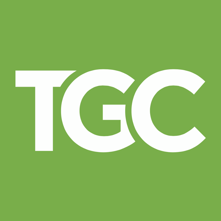 Logo of The Gospel Coalition